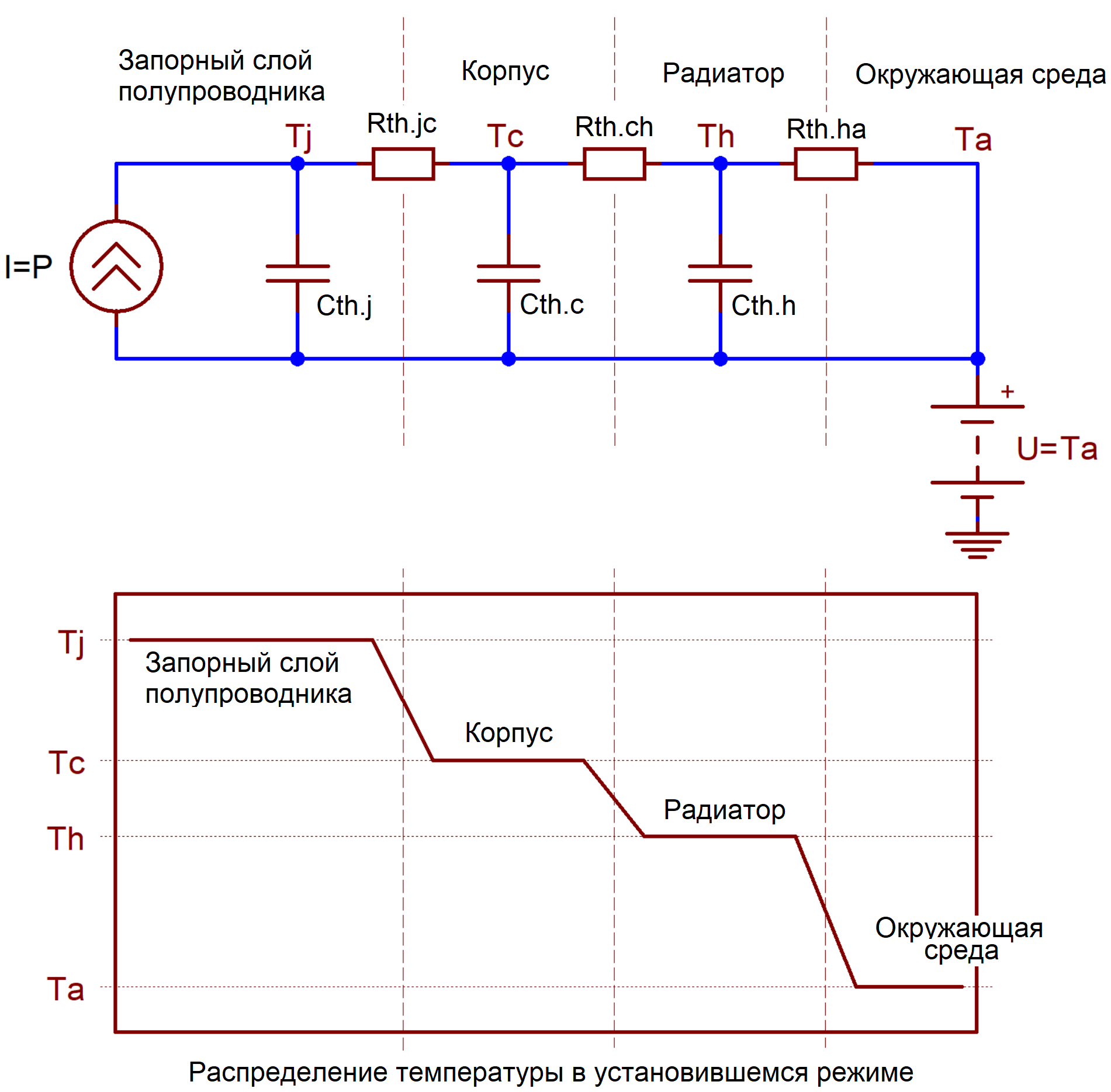 Basic thermal model of a semiconductor power device mounted on a heatink